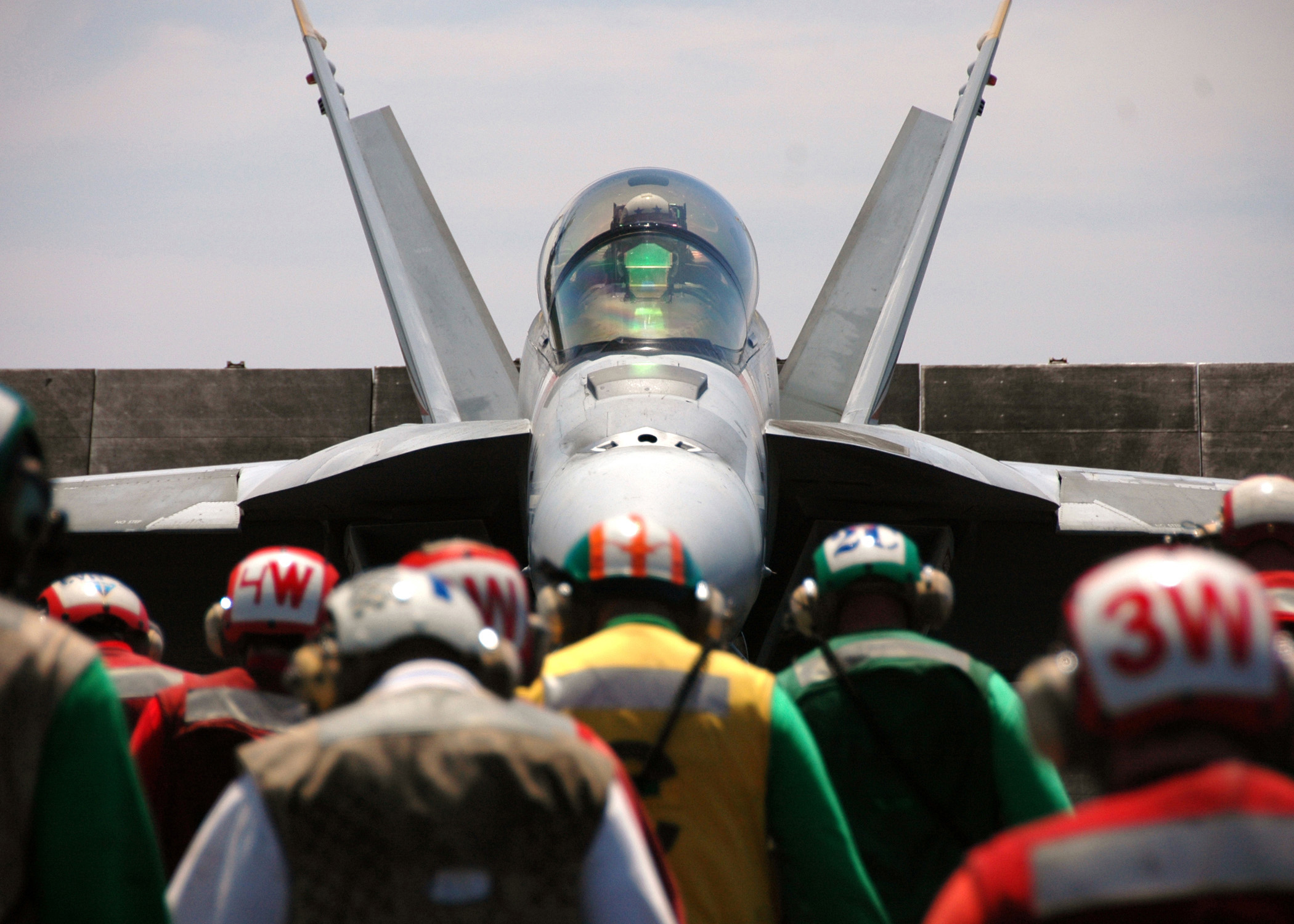 U.S. Navy Sailors from Carrier Air Wing Two and USS Abraham Lincoln (CVN 72) conduct a foreign object debris walk-down as former Commander of Carrier Air Wing Two Capt. Matthew Klunder waits in an F/A-18F Super Hornet aircraft for his last flight off of the Nimitz-class aircraft carrier while under way in the Pacific Ocean.